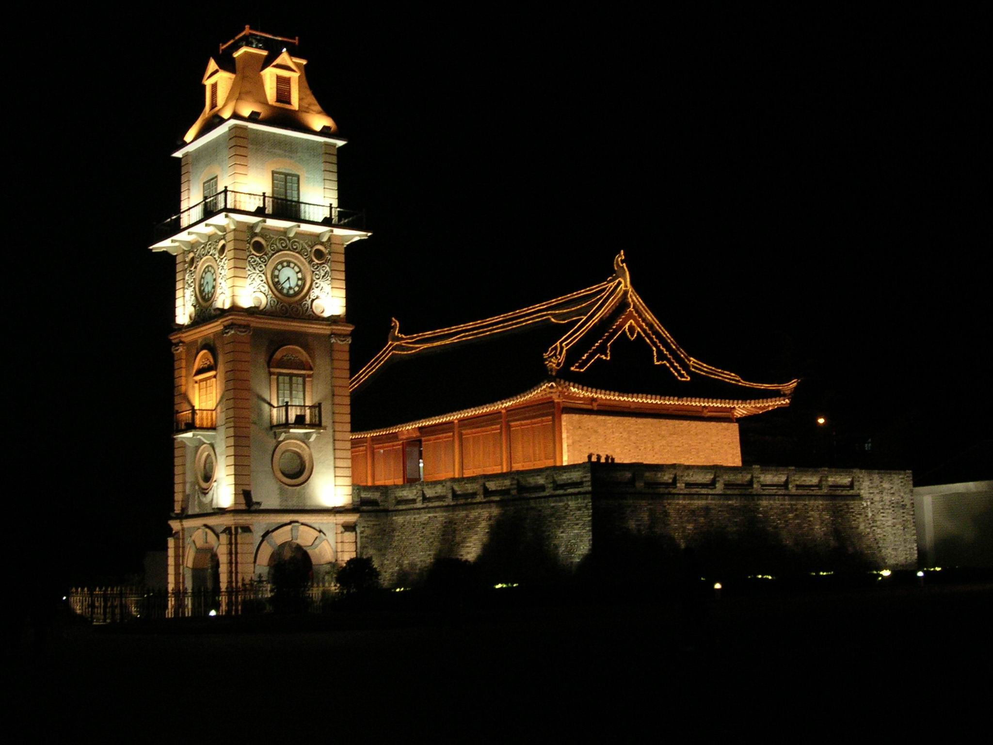 author: Frank Ji